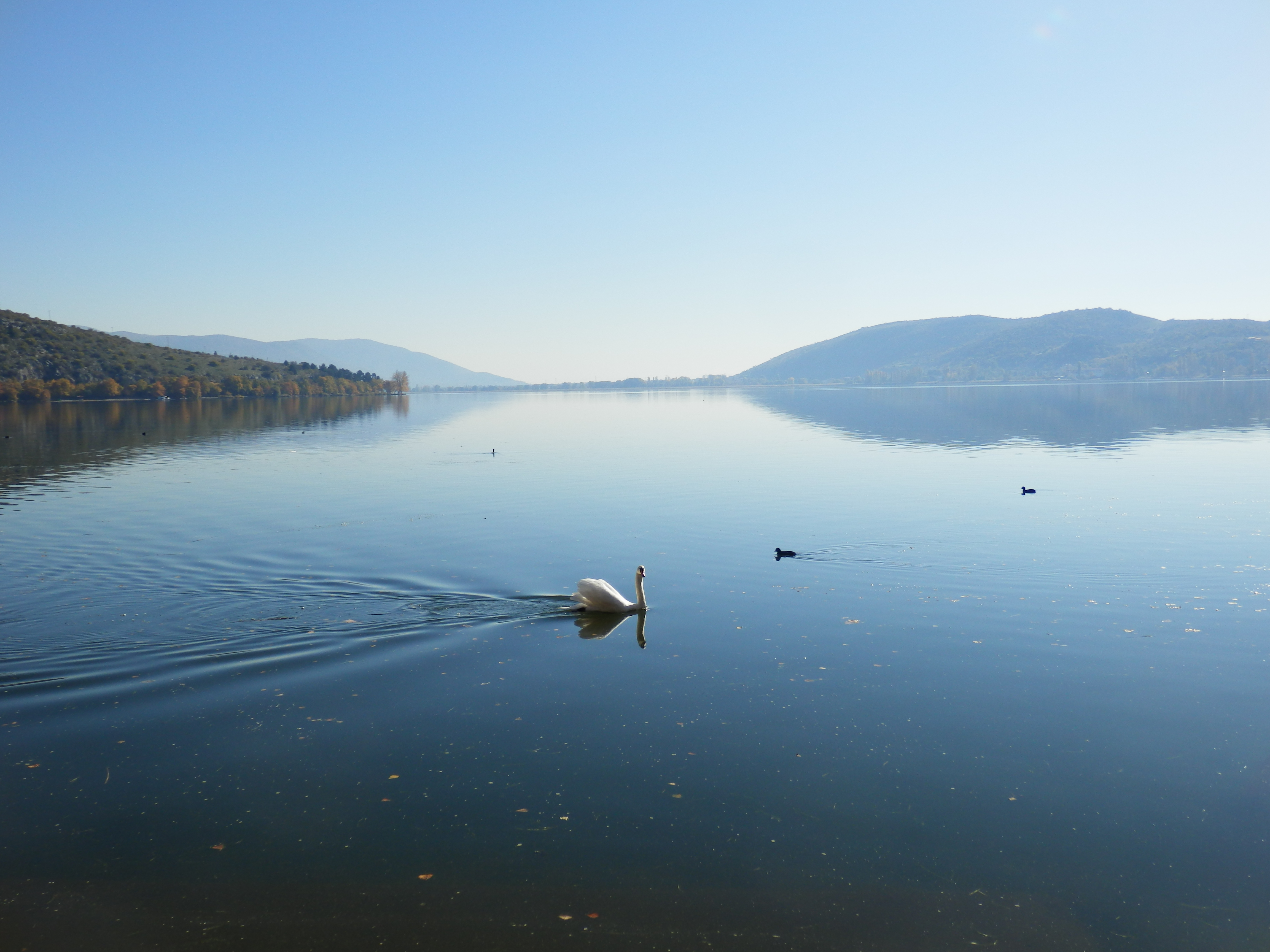 This is a photography of Natura 2000 protected area with ID GR1320001